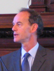 Philosopher Peter Simons in Riga, 2008.